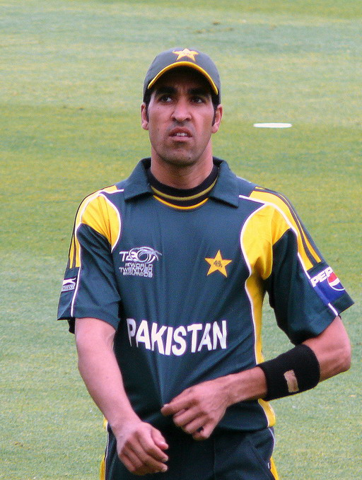 Umar Gul at the 2009 ICC World Twenty20.